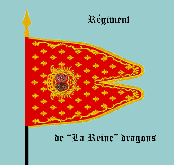 Guidon du régiment de Reine dragons